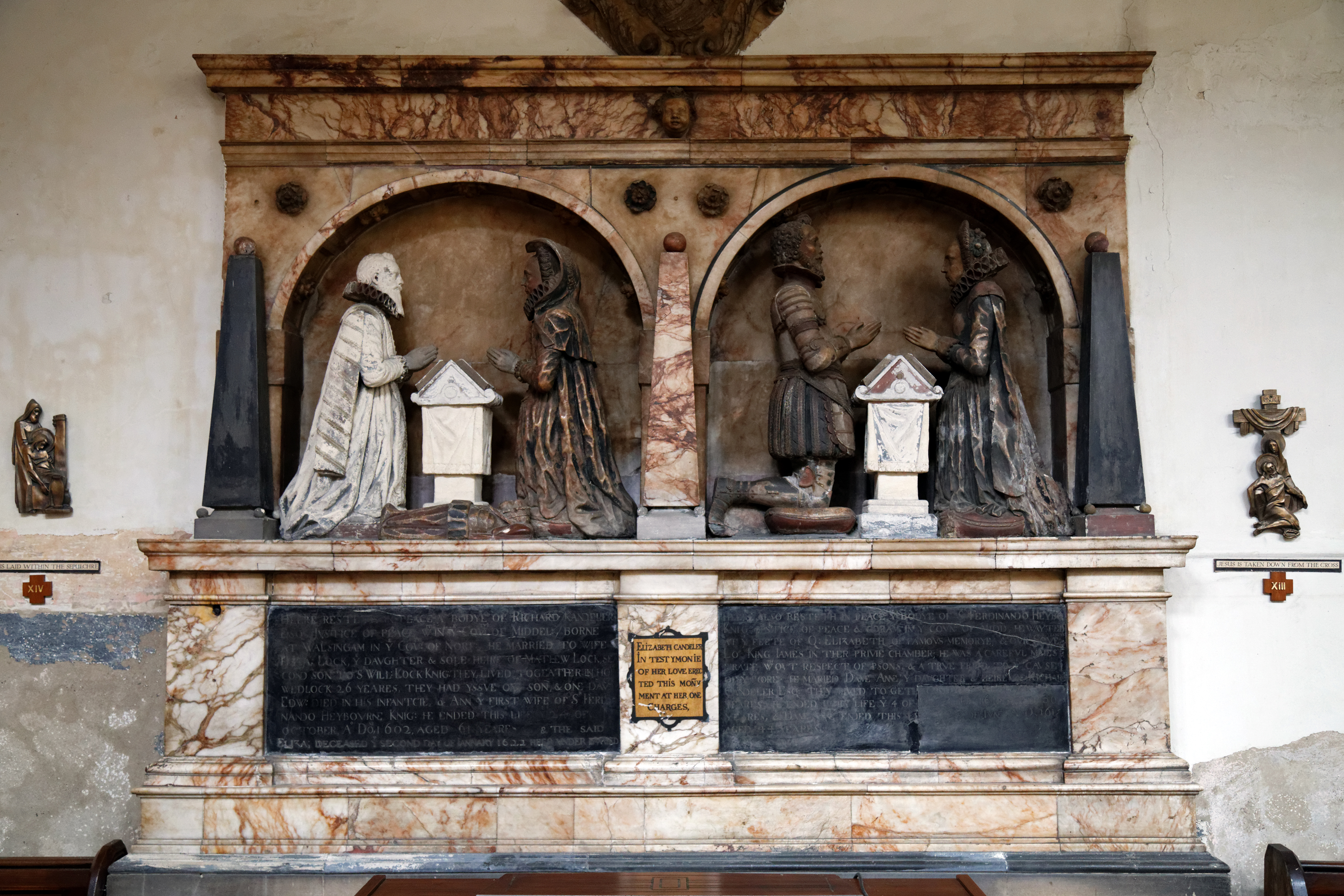 Wall marble memorial monument to Richard Candeler (d.1602), and Sir Ferdinando Heyborne (c.1558 – 1618), in the south aisle of All Hallows' Church, Tottenham, Haringey, England.The Environs of London: Volume 3, County of Middlesex (published 1795), pp. 517-557, describes the monument as "to the memory of Richard Candeler, Esq., 1602; Eliza, his wife, daughter and sole heir of Matthew Lock, second son of Sir William Lock, 1622; Sir Ferdinando Heyborne, gentleman of the privy chamber to Queen Elizabeth and King James I., 1618; and Anne his wife, daughter and heir of Richard Candeler, 1615. The monument is of veined marble, and has two arches, under which are the effigies of the deceased in kneeling attitudes. Candeler is habited in a gown, Sir Ferdinando Heyborne is in armour."Camera: Canon EOS 6D with Canon EF 24-105mm F4L IS USM lens.Software: large RAW file lens-corrected optimized and downsized with DxO OpticsPro 10 Elite, Viewpoint 2, and Adobe Photoshop CS2.